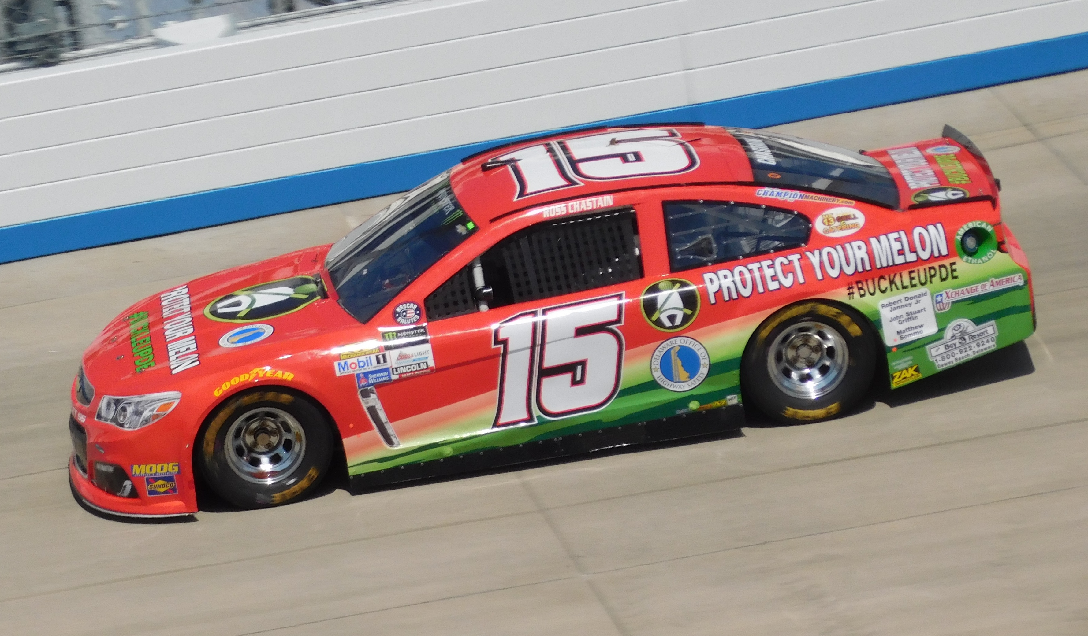 Ross Chastain's No. 15 Delaware Office of Highway Safety Chevrolet at Dover International Speedway in 2017